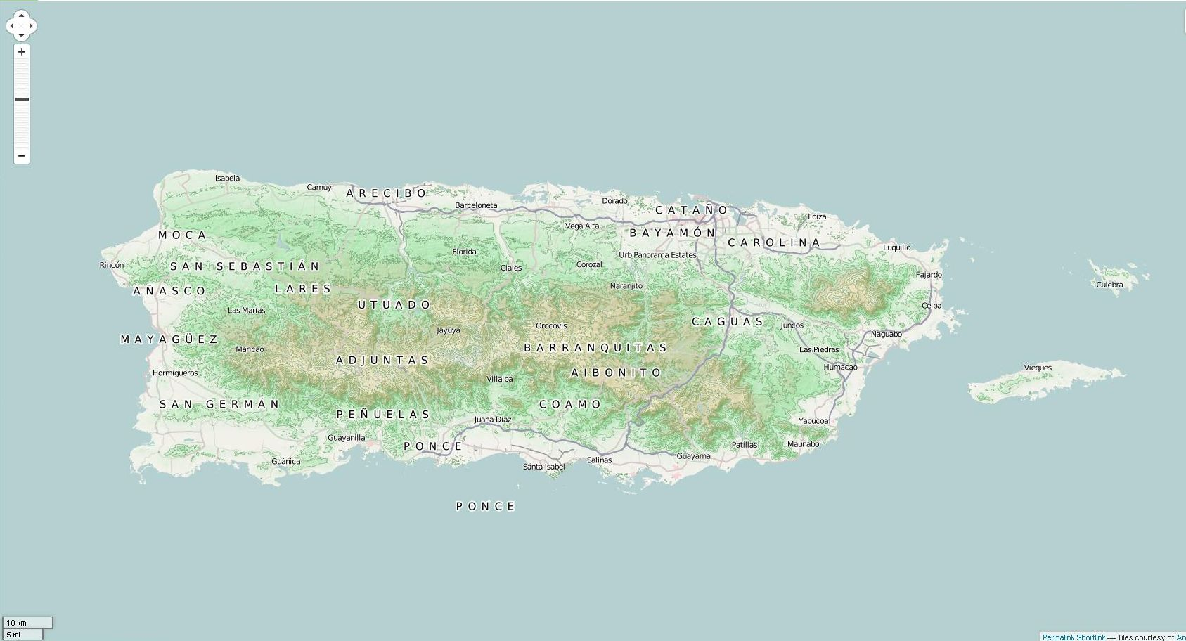 OpenStreetMap map of Puerto Rico